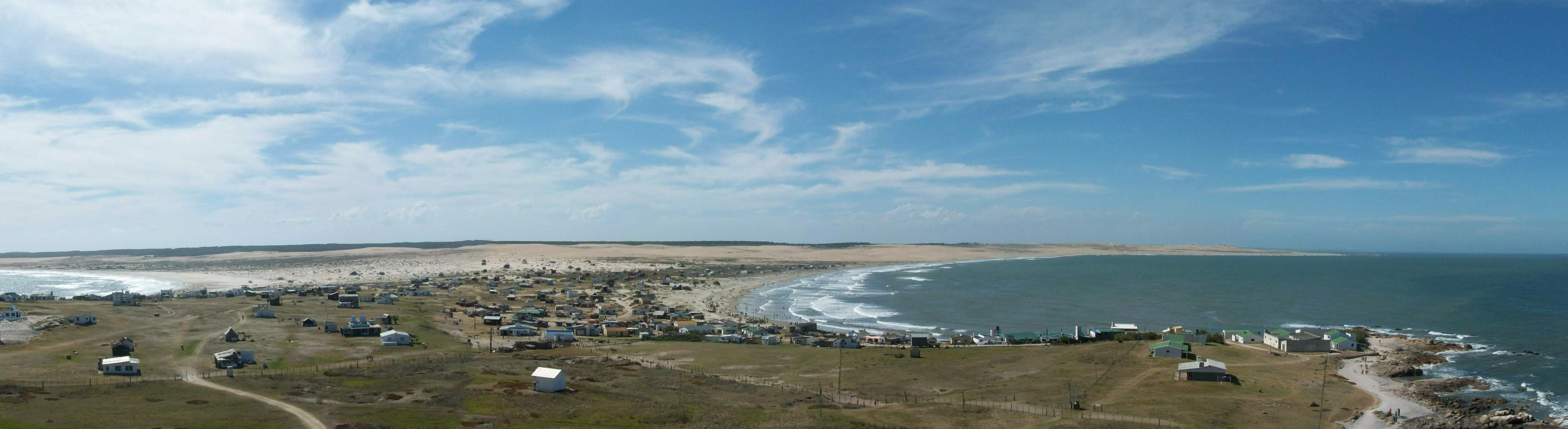 Panoramic view of Cabo Polonio, Uruguay.